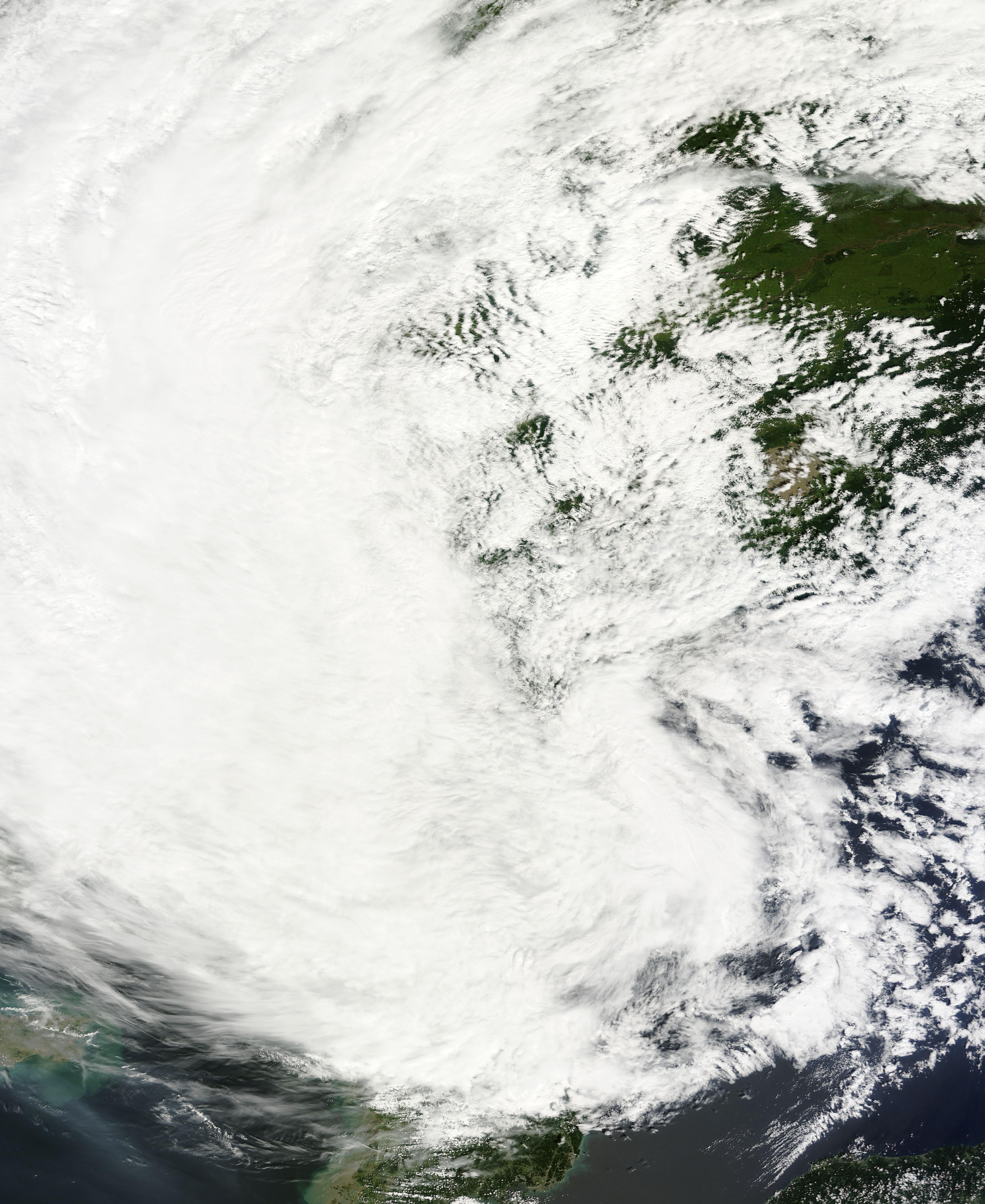 Extratropical Cyclone Lionrock brushing Rason, North Korea on August 31, 2016